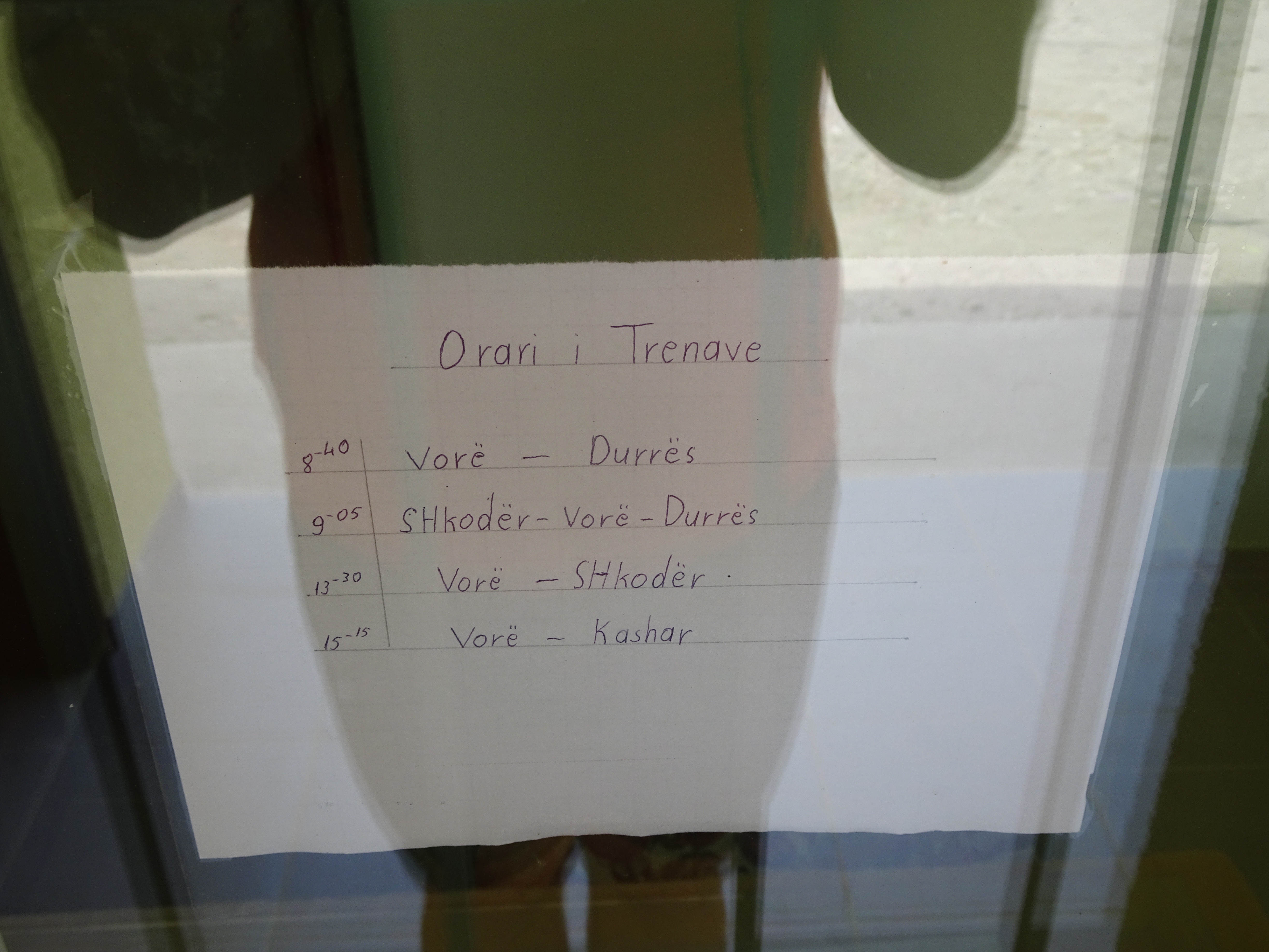 timetable on the train station in Vora